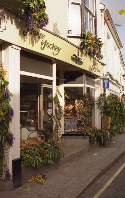 Furry Dance, Helston